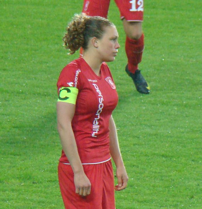 FC Twente Player Mirte Roelvink